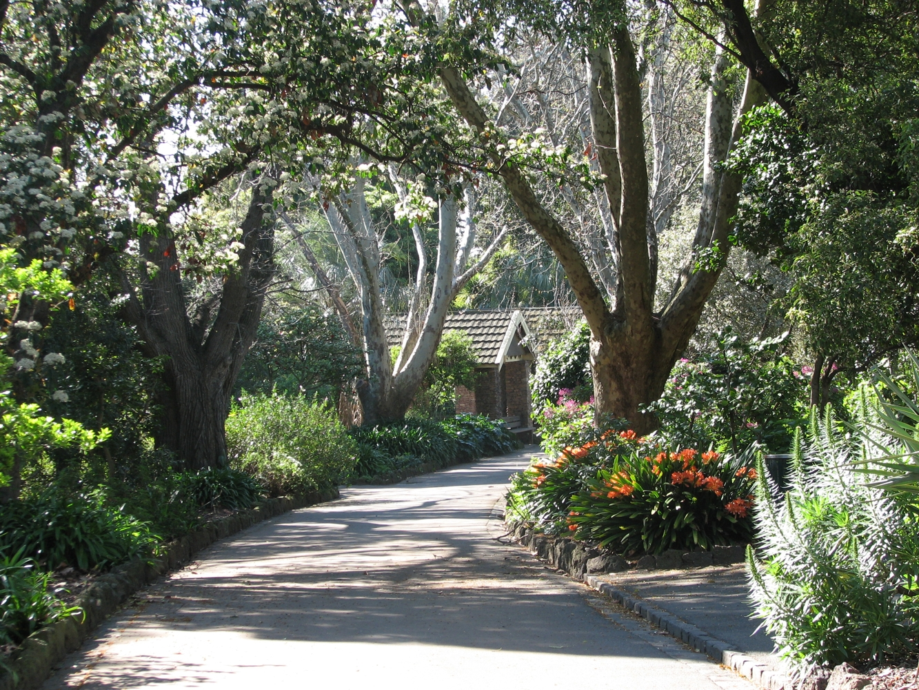 Footscray Park, Footscray, Victoria, Australia.